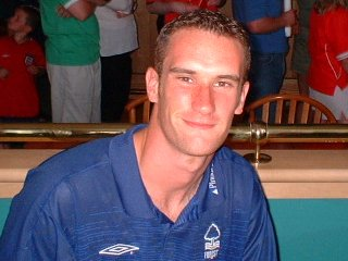 Photo of Barry Roche taken in 2002. Taken with permission from